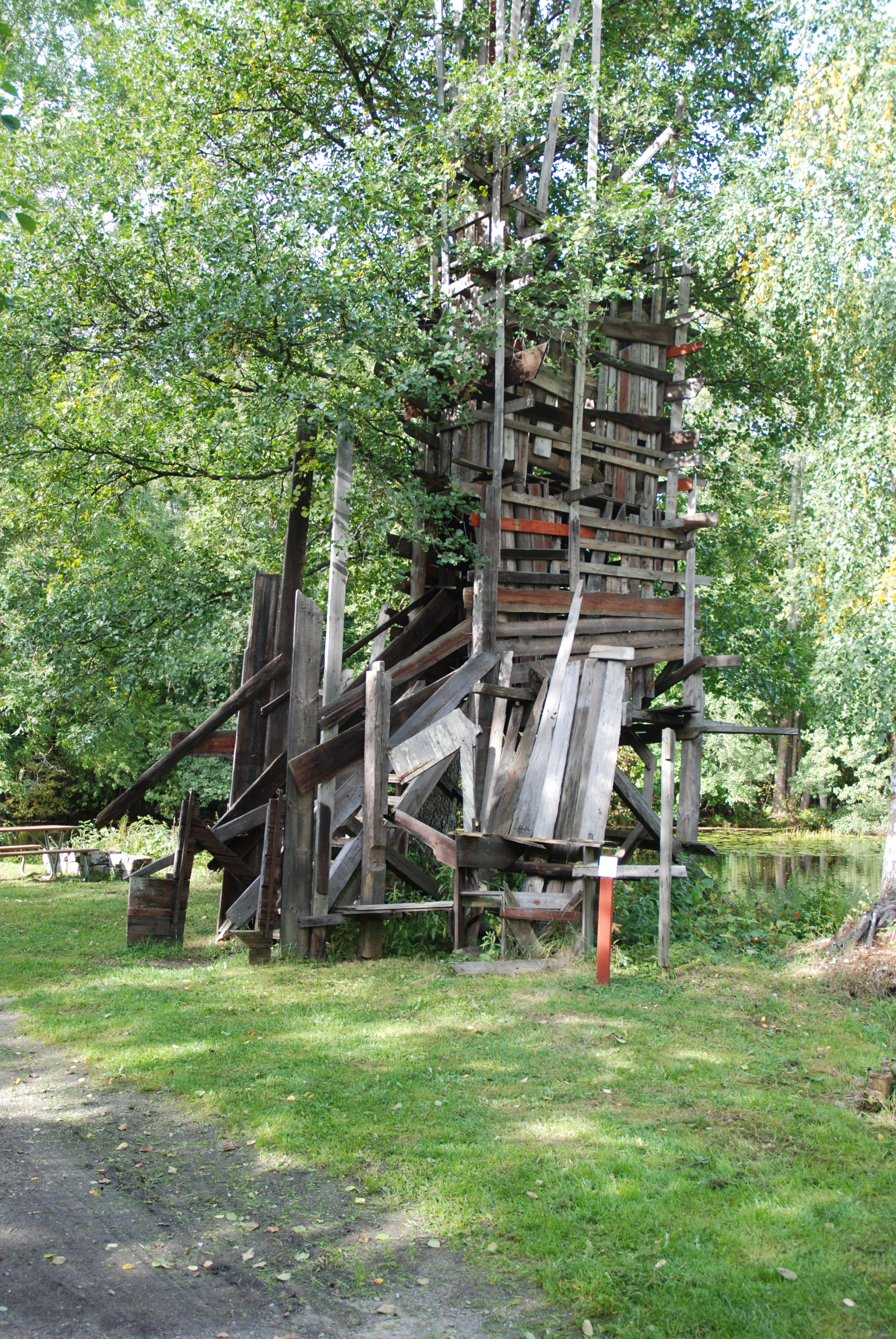 Lars Vilks´ Servicetornet Livslögnen (Service Tower Life Lie), Ängelsberg, Sweden